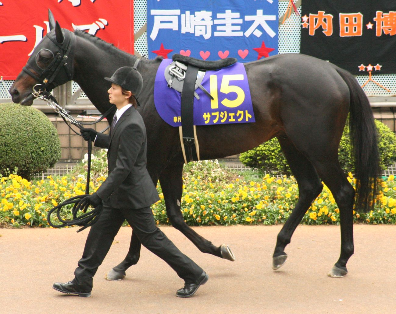 Japanese racehorse Subject at the track